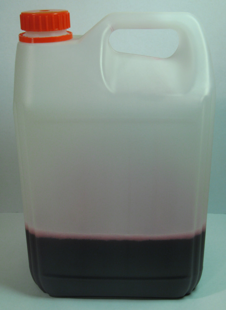 New red wine / red "Federweißer" wine in a canister (South Germany, 2007)